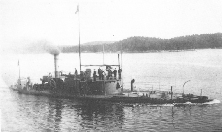 Swedish river monitor Gerda in 1895